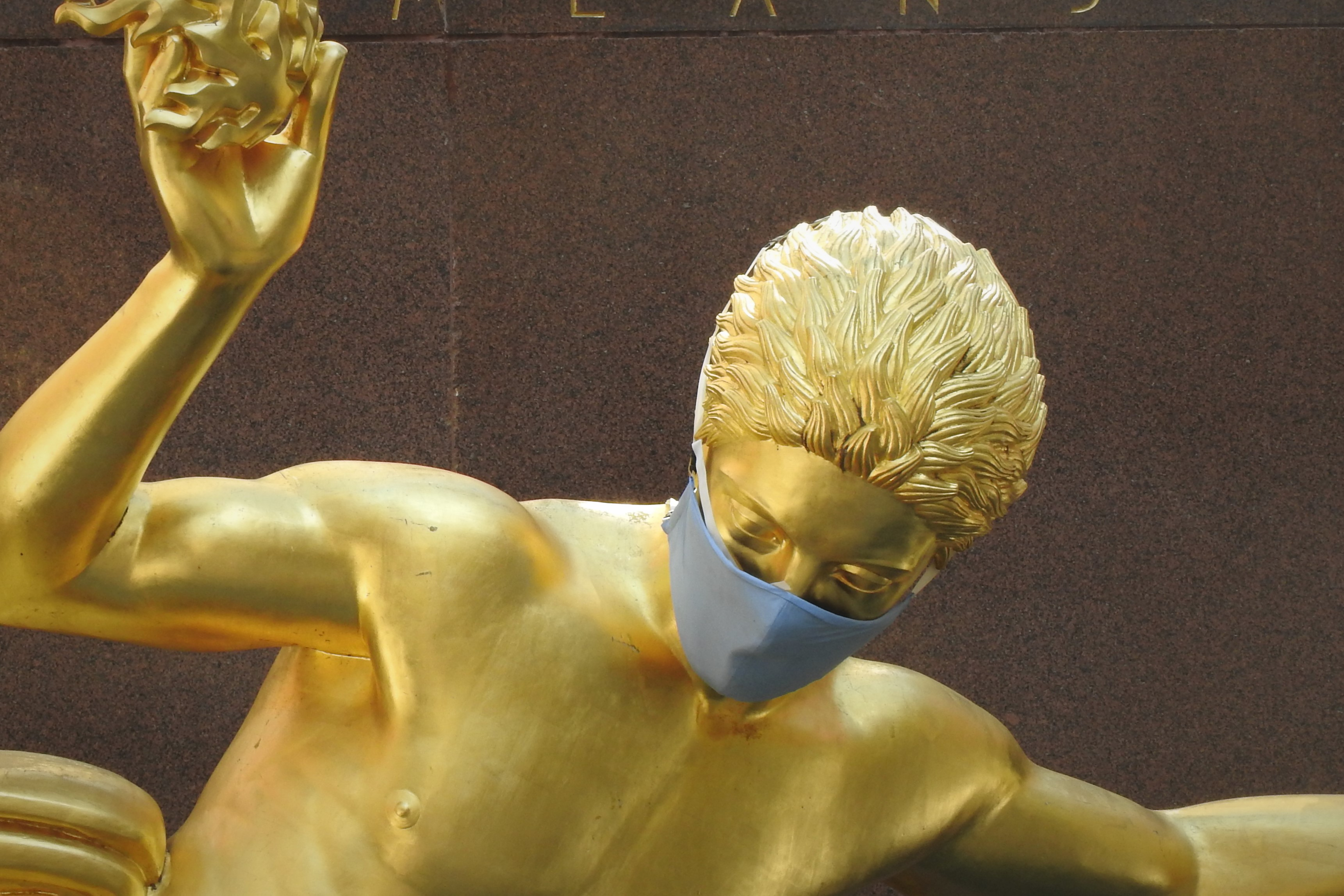 Looking west at masked statue on a sunny late morning